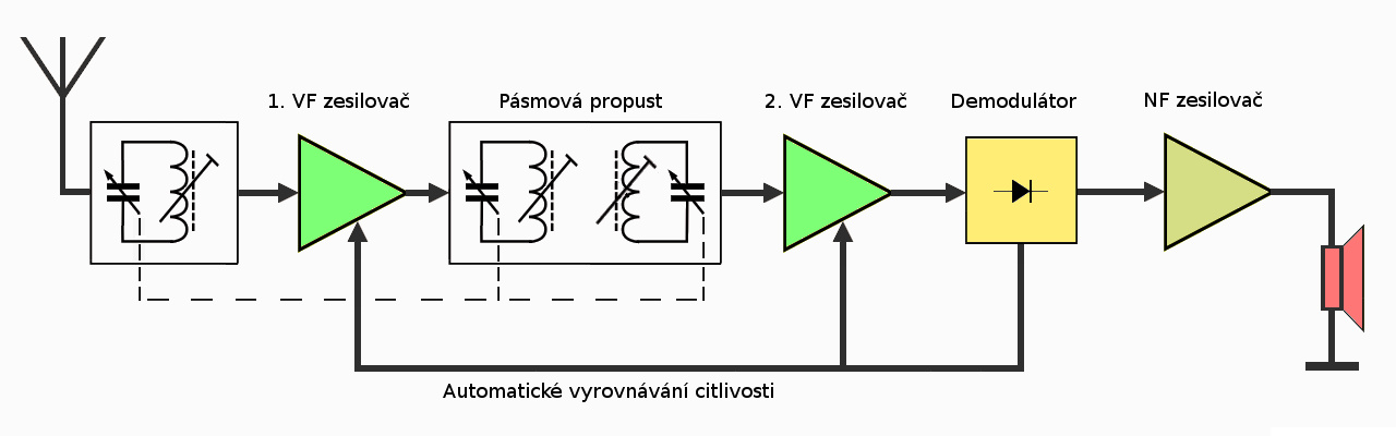 Block diagram